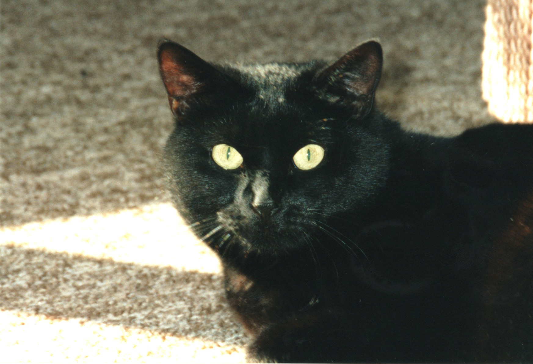 Taken by my at various different times A black cat